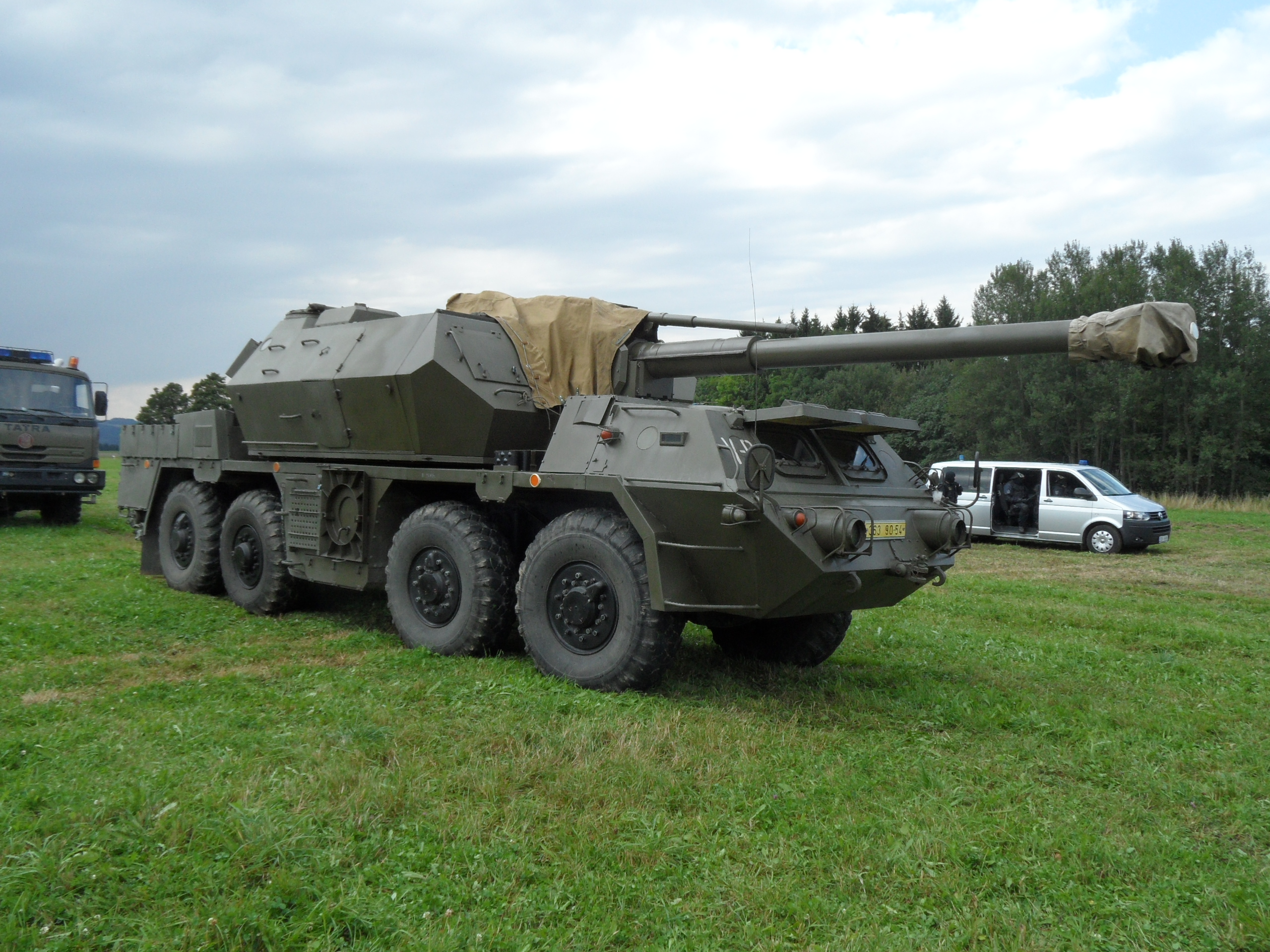 Akce Cihelna 2014 H06. Static Presentations: Self-propelled gun-howitzer ShKH vz. 77 Dana, Králíky, Ústí nad Orlicí District, the Czech Republic.